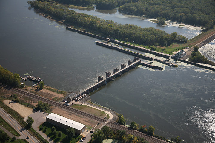 Lock and dam 5a